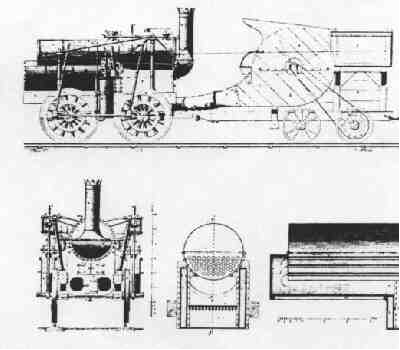 Plan of Marc Seguin's locomotive from 1829